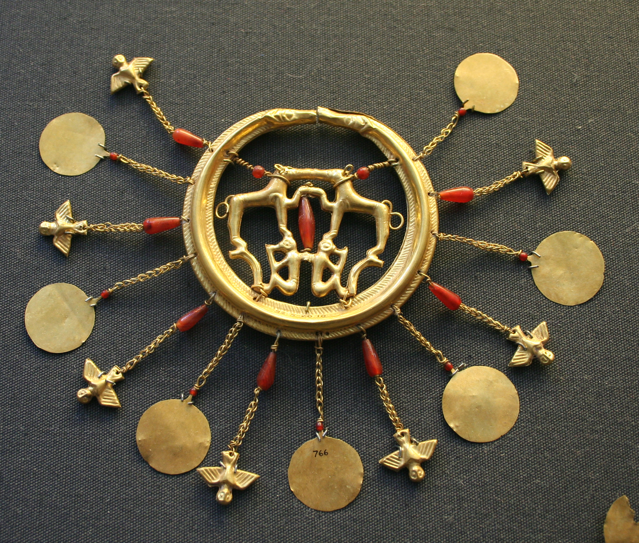 Part of the Aegina treasure. This golden earring is one of a pair, the other is File:Aegina treasure 02.jpg. The main body is hoop from a double-headed snake. Inside are two slim animals, possibly greyhounds, over two monkeys. 14 short chains are hanging from the central part, alternating ending in golden discs and figures of owls. British Museum Catalogue Jewellery #763, the other earring is #764. Another pair of almost identical earrings exist and is numbered as #765 and #766. Description after Higgins: The Aegina Treasure, 1979